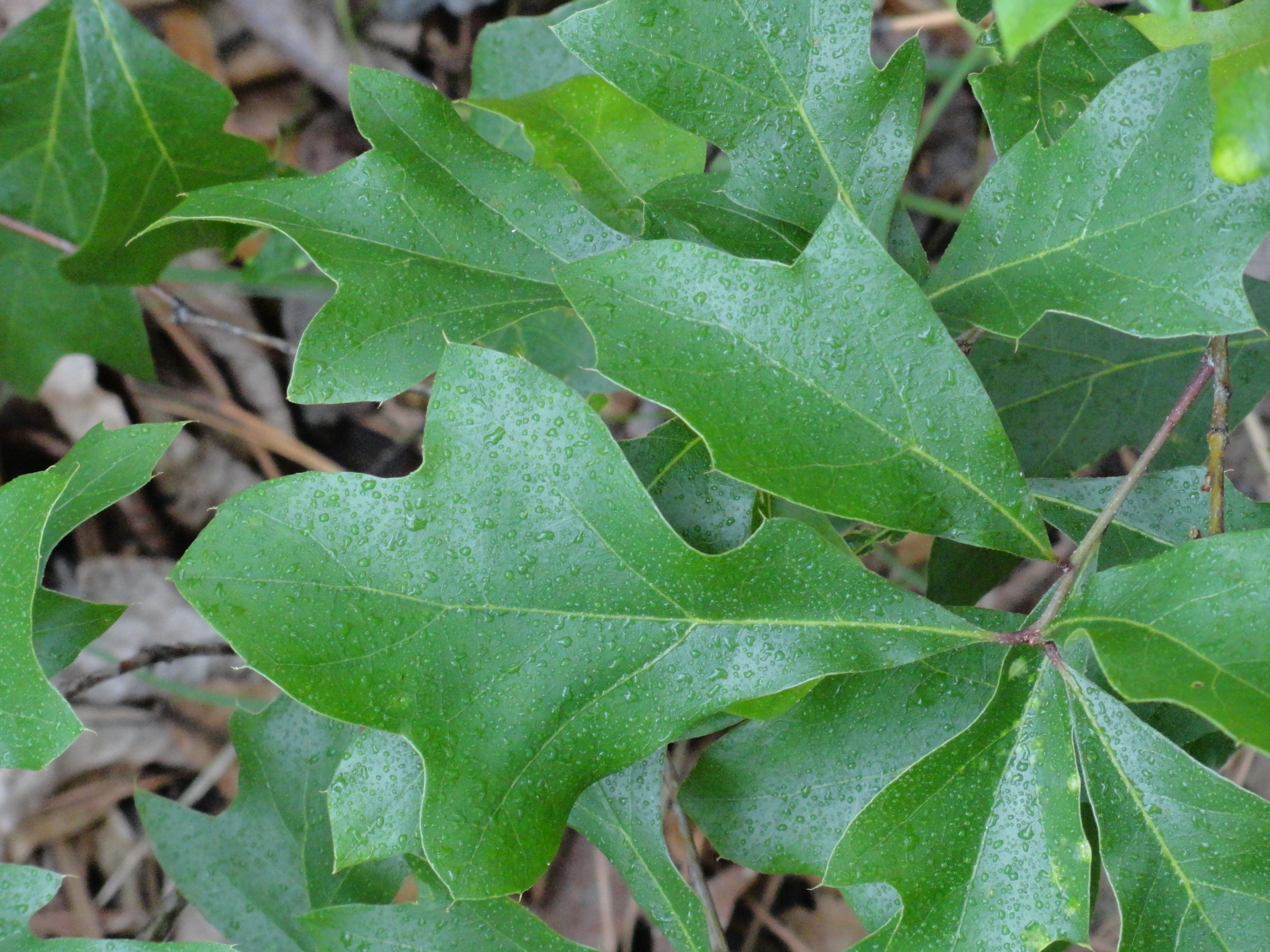 Quercus georgiana leaves in late spring, taken in the rain on the Walk Up Trail at Stone Mountain Park in Georgia, US